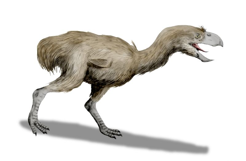 Paraphysornis brasiliensis, a flightless bird from the Early Miocene of Brazil, pencil drawing, digital coloring